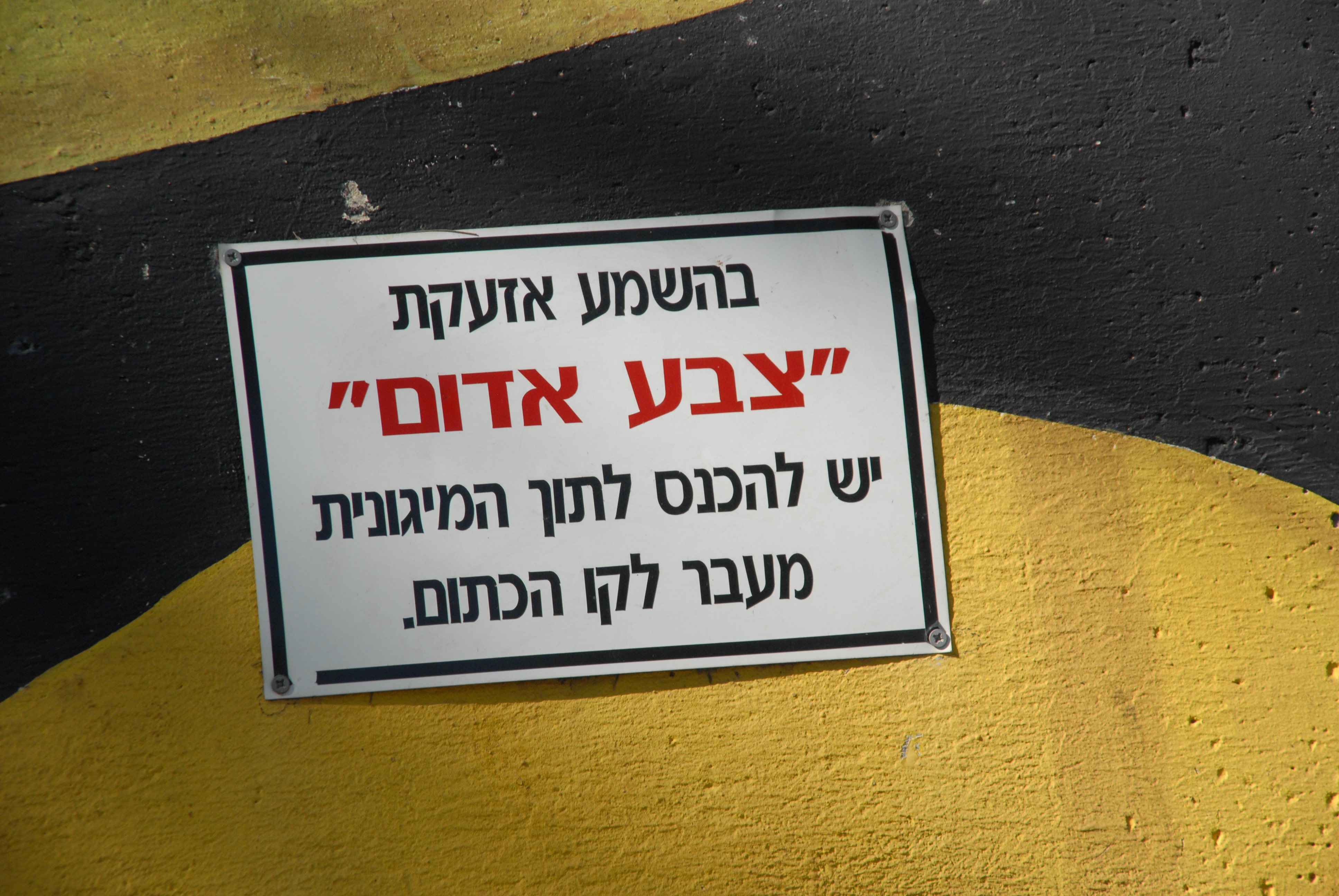 Israel Defense Forces